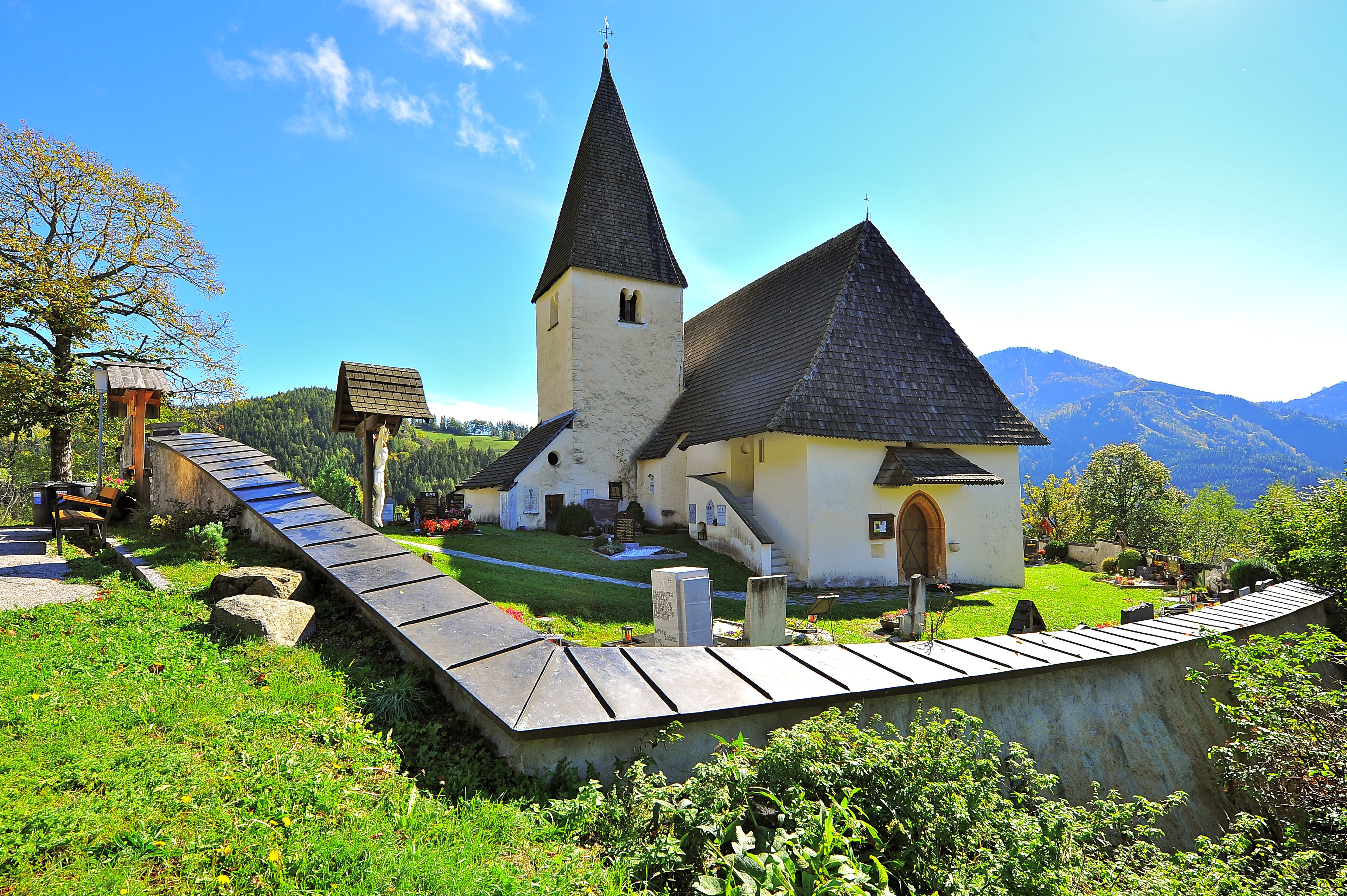 Parish church Saint John the Baptist at Ebriach, municipality Eisenkappel-Vellach, district Voelkermarkt, Carinthia / Austria / EU